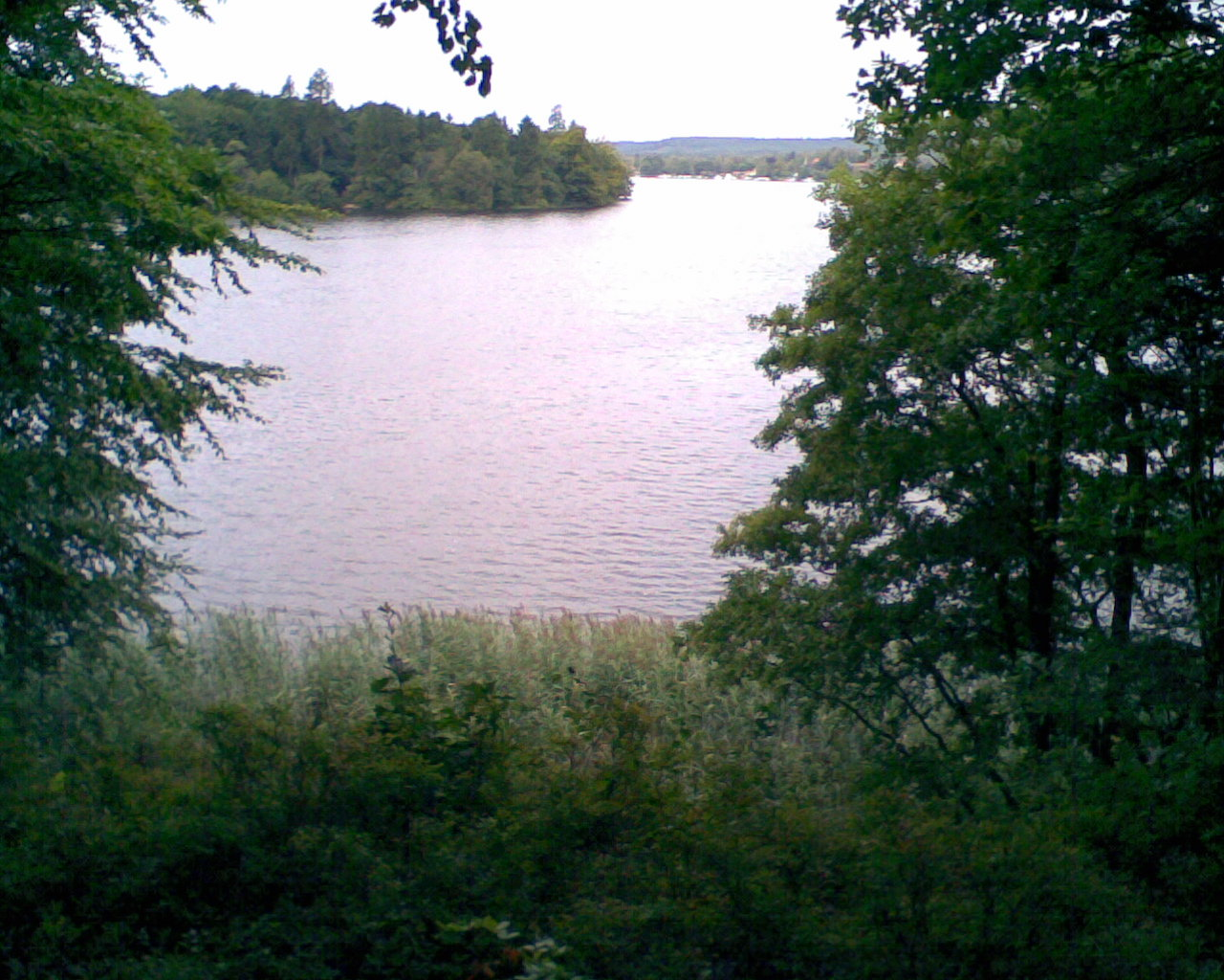 Lake Borresø near Silkeborg, Denmark